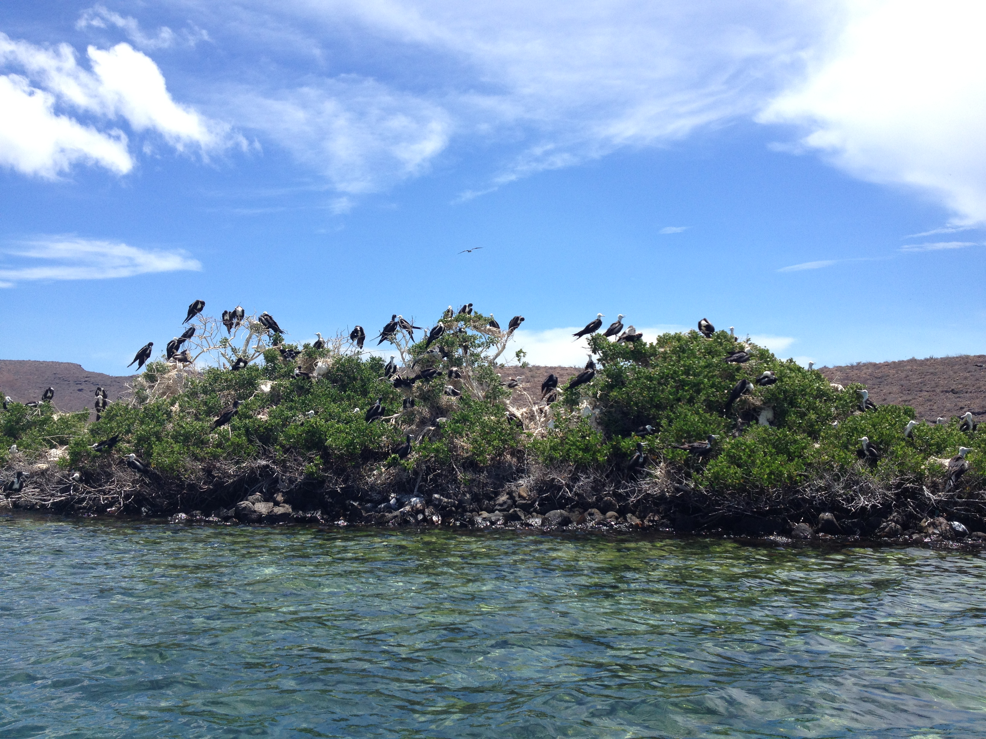 Fregata birds nests